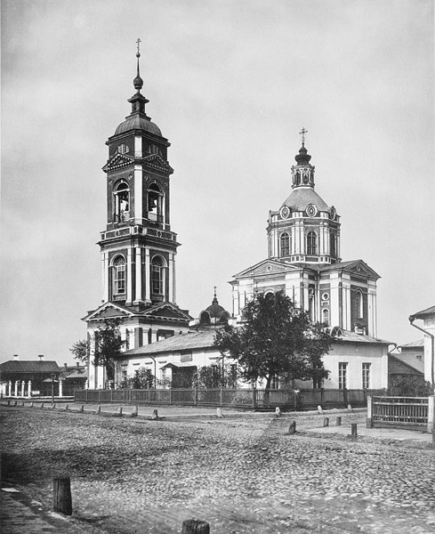 Church of the Ascension of Christ at Serpukhov Gates (Moscow) 1882